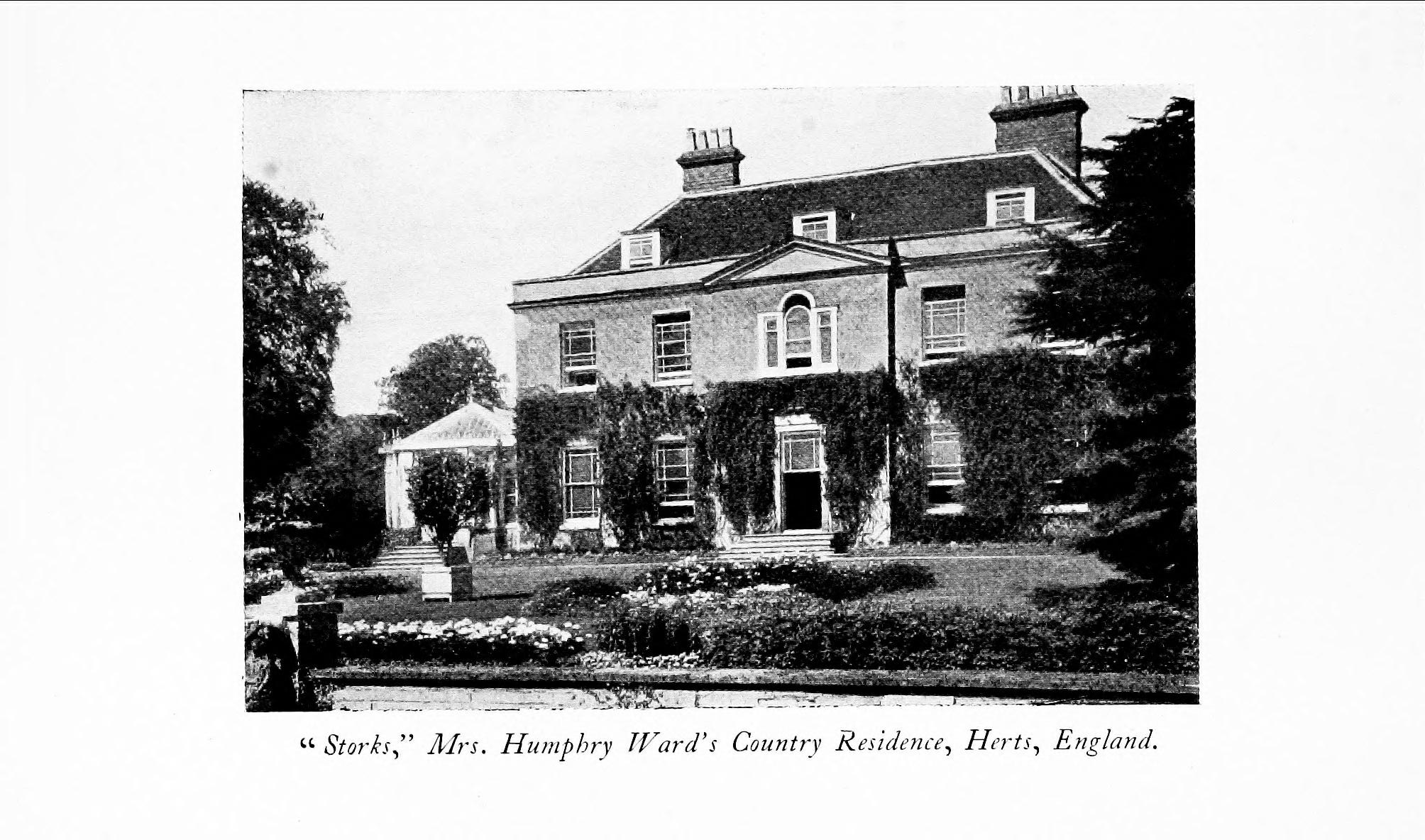 Stocks, Mrs. Humphry Ward 's Country Residence, Herts, England